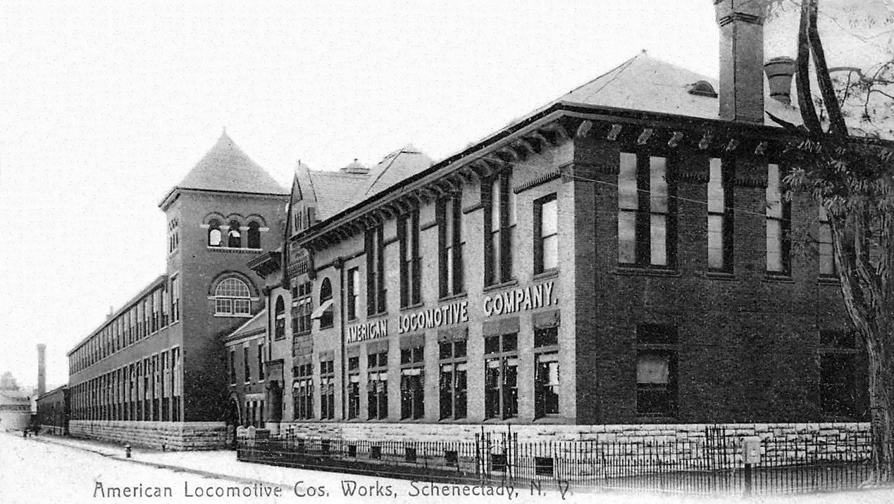 Postcard photo of the American Locomotive Company at Schenectady, New York in 1906.